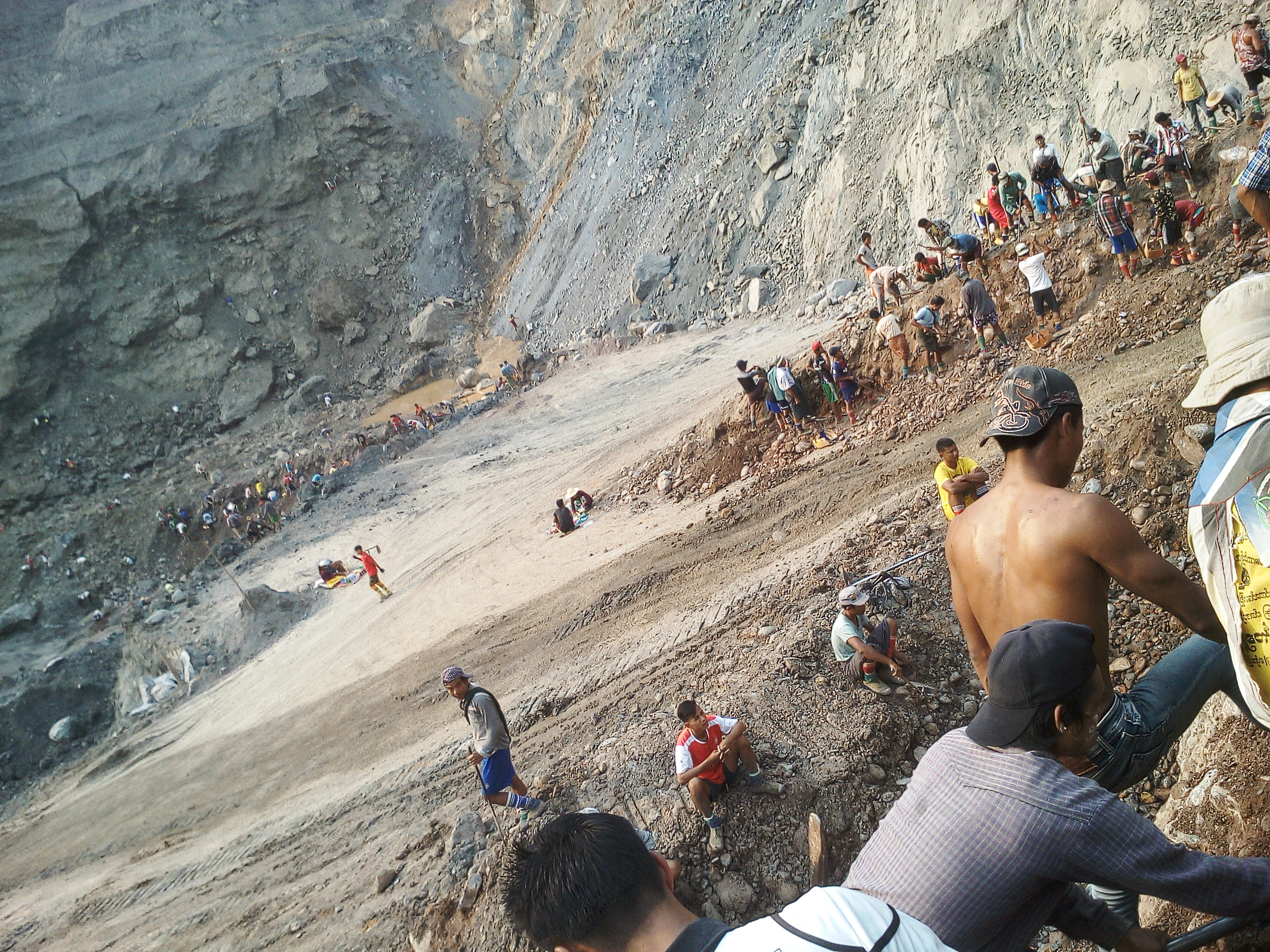 Almost people are youth coming from different parts of the nation who spent most of time by hardworking that place. #KachinState #Myanmar